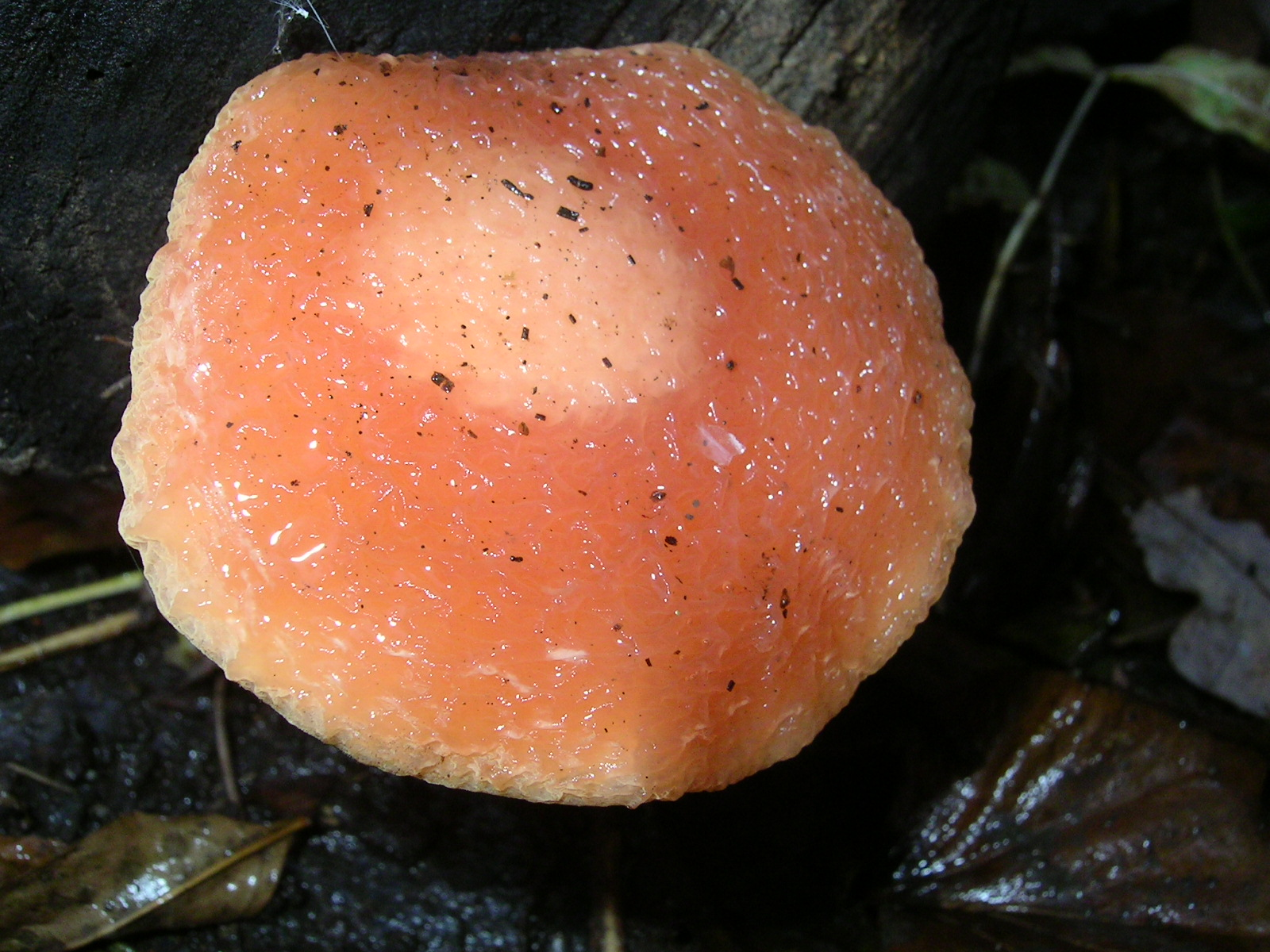 Wrinkled Peach [1]